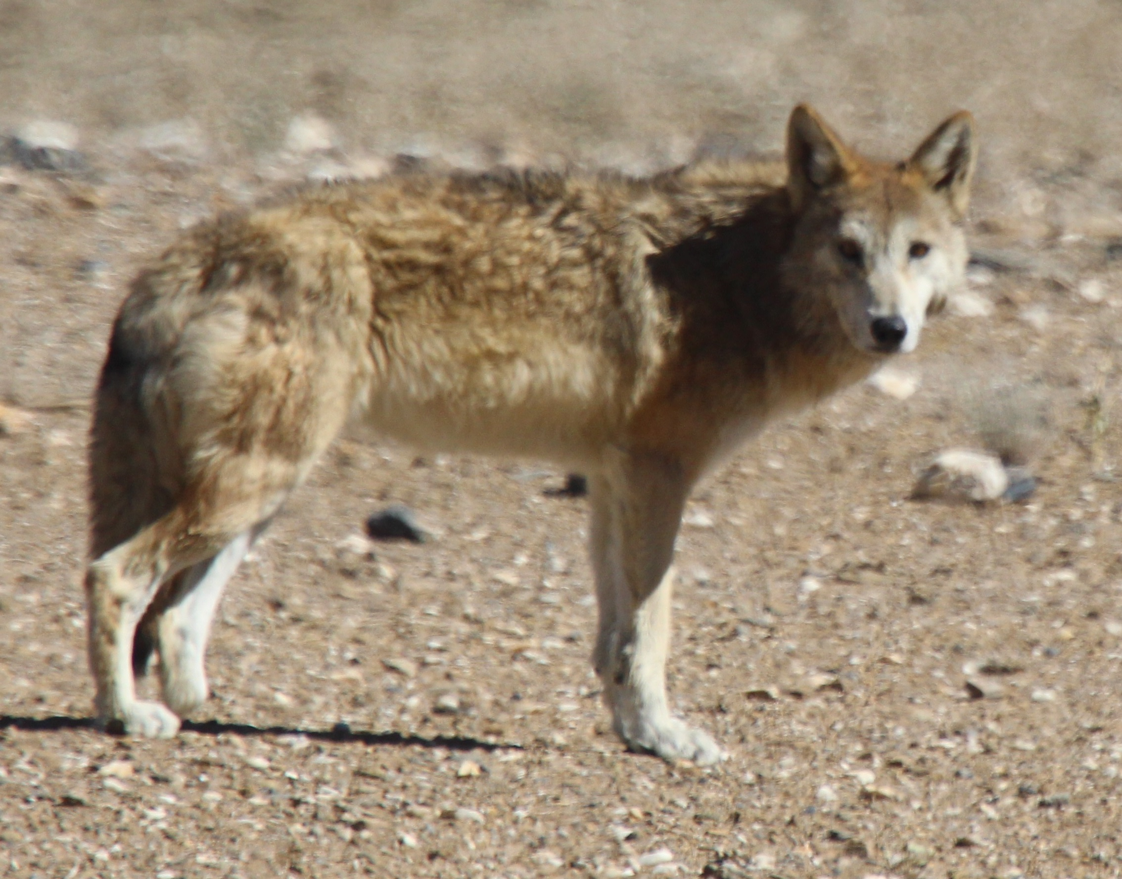 Tibetan wolf in Changthang